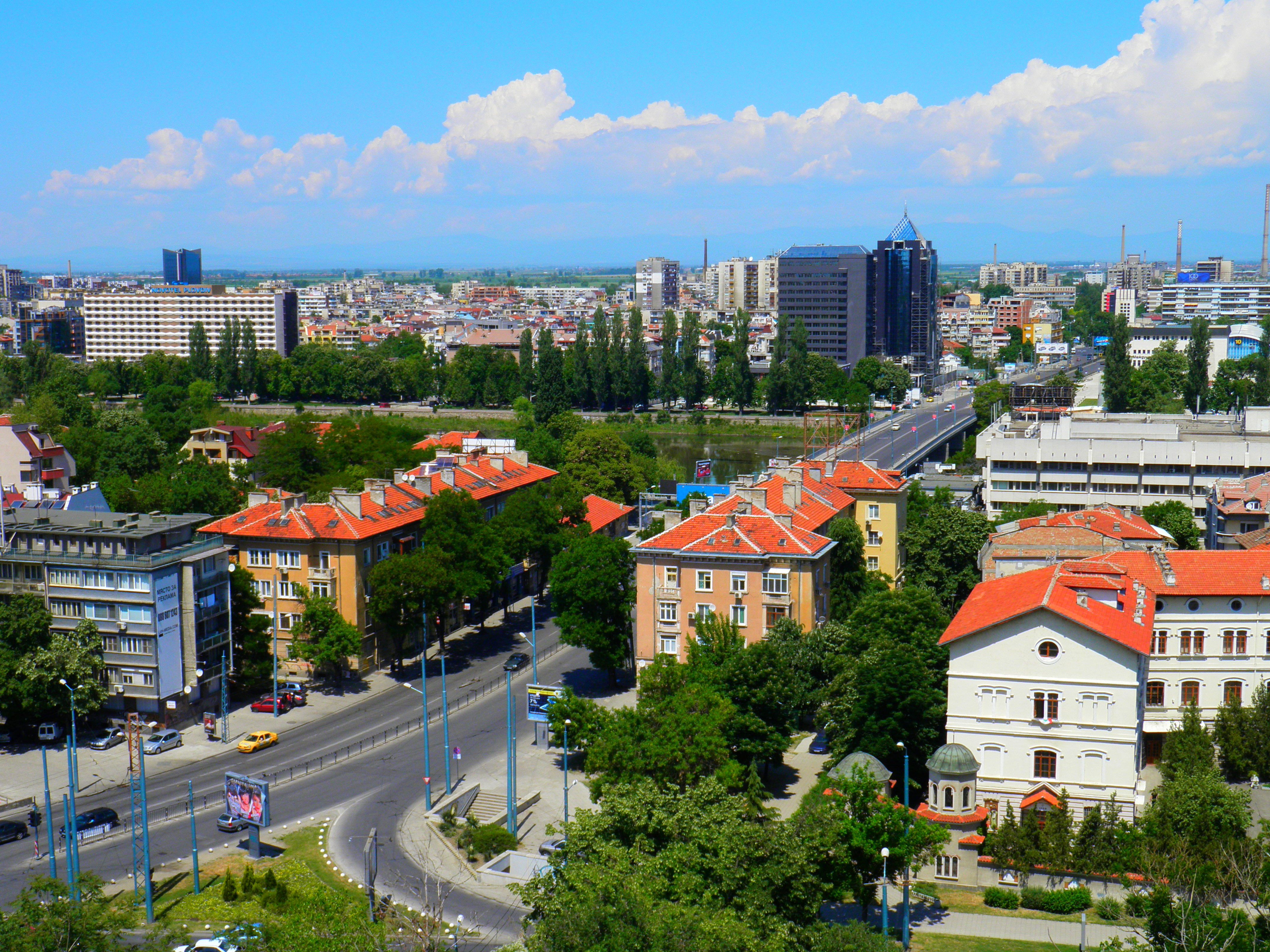 Panorama of Plovdiv